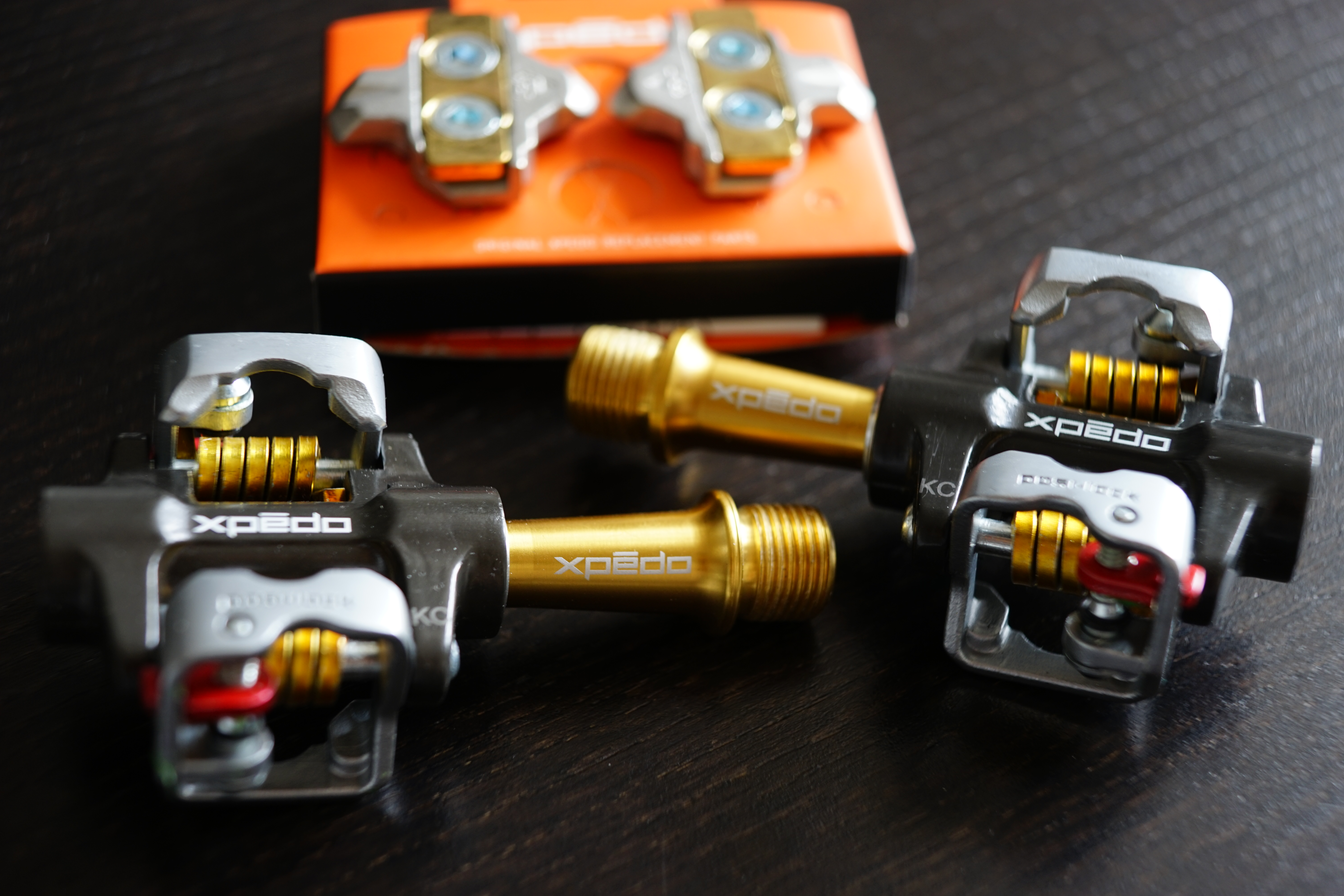 Xpedo M-FORCE 4 TI bicycle pedals